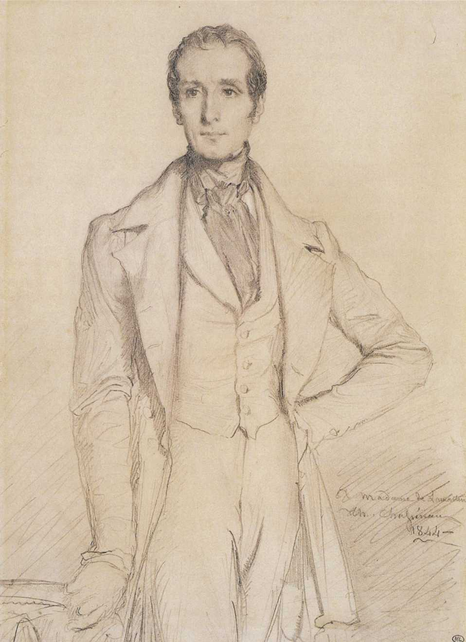 Théodore Chassériau (French, 1819-1856): Portrait of Alphonse de Lamartine; Dimensions and material of painting: Graphite, heightened with white, on beige paper, 31.5 x 22.7 cm